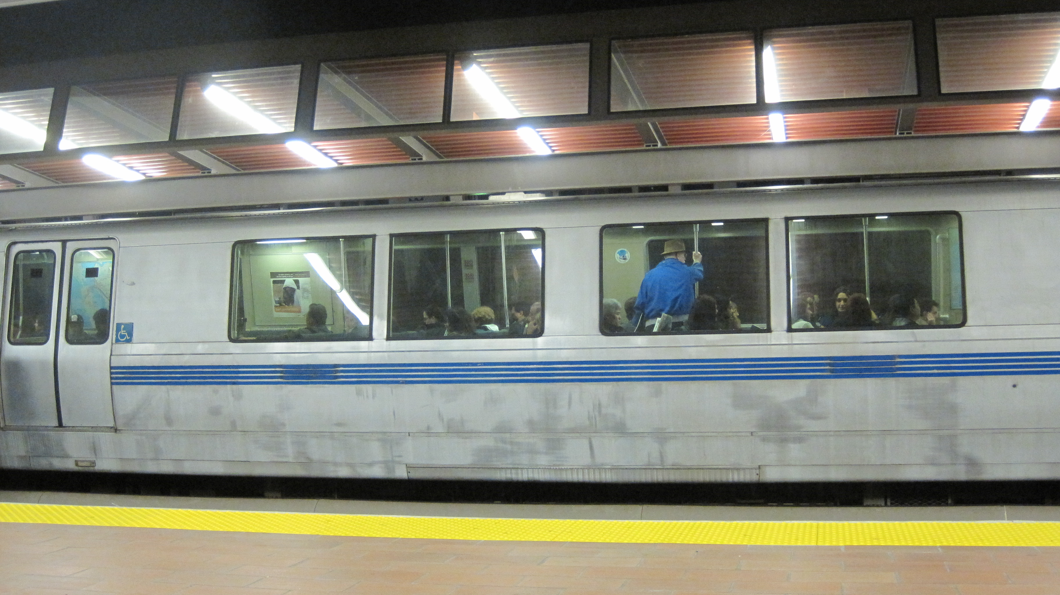 A BART train at the Fruitvale station.